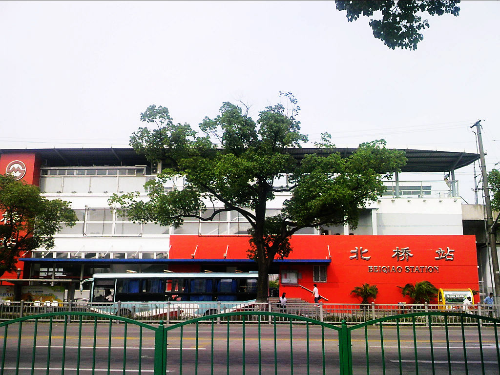 Beiqiao Station, Shanghai